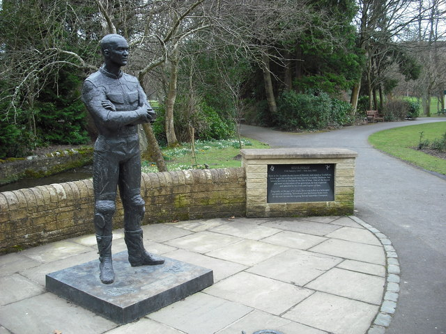 The Steve Hislop Memorial Located in Wilton Park Hawick The inscription reads: Steve Hislop 11 January 1962 - 30 July 2003 Born in the Scottish Border town of Hawick, and raised at Southdean, Steve began his working and racing career in nearby Denholm,but latterly he lived Onchan on the Isle of Man. One of the fastest and most stylish riders of his generation, he was respected and admired by his rivals and legions of fans. Tragically, at the age of 41 years, Steve was killed in a helicopter accident at Carlenrig, Teviothead, near his former home town. At the time he was the reigning British Superbike Champion.